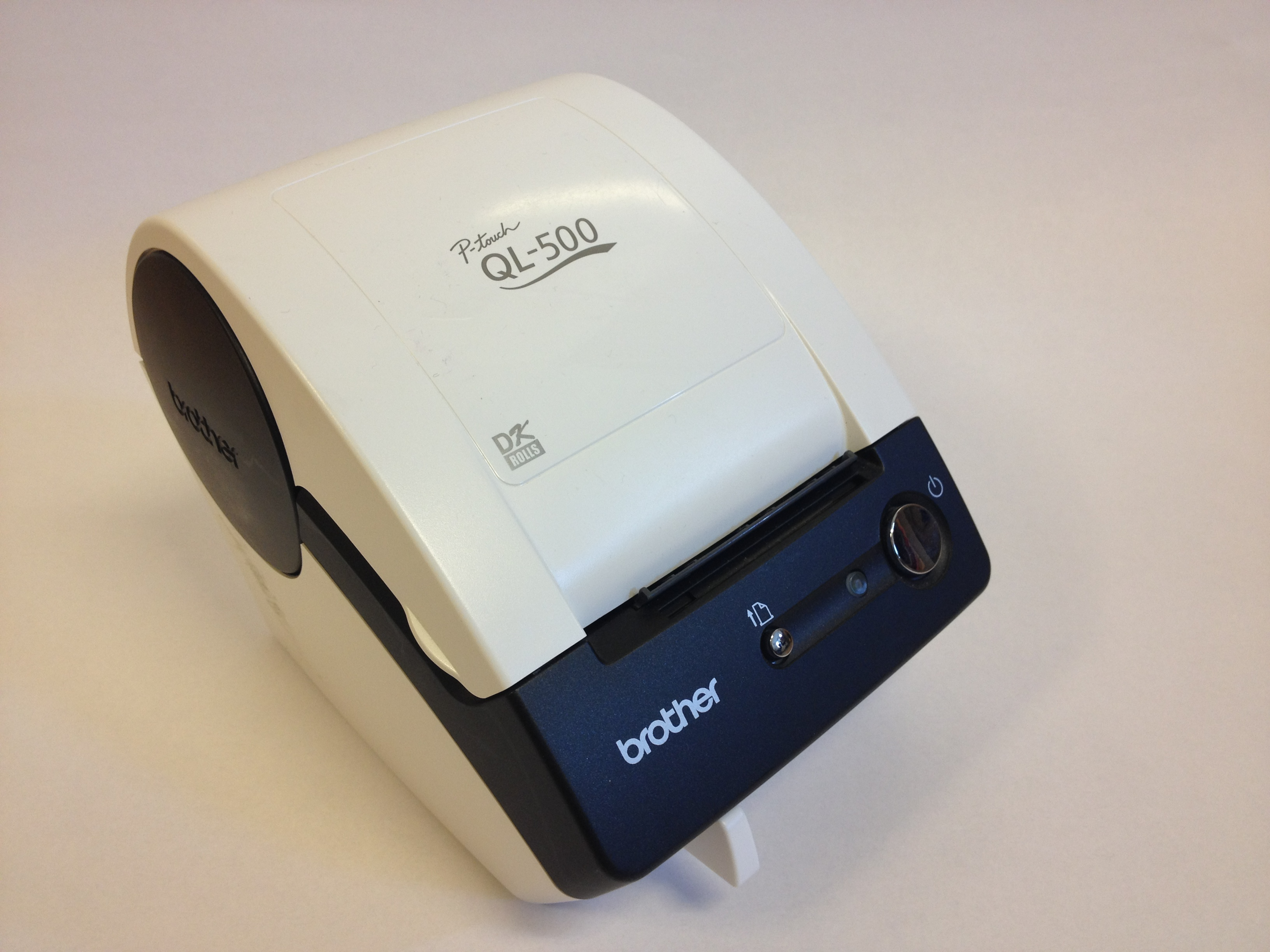 Picture of QR printer Brother QL-500